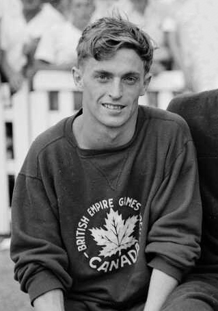 Don Pettie. Photograph taken in February during the 1950 British Empire Games at Eden Park, Auckland, by an Evening Post photographer.